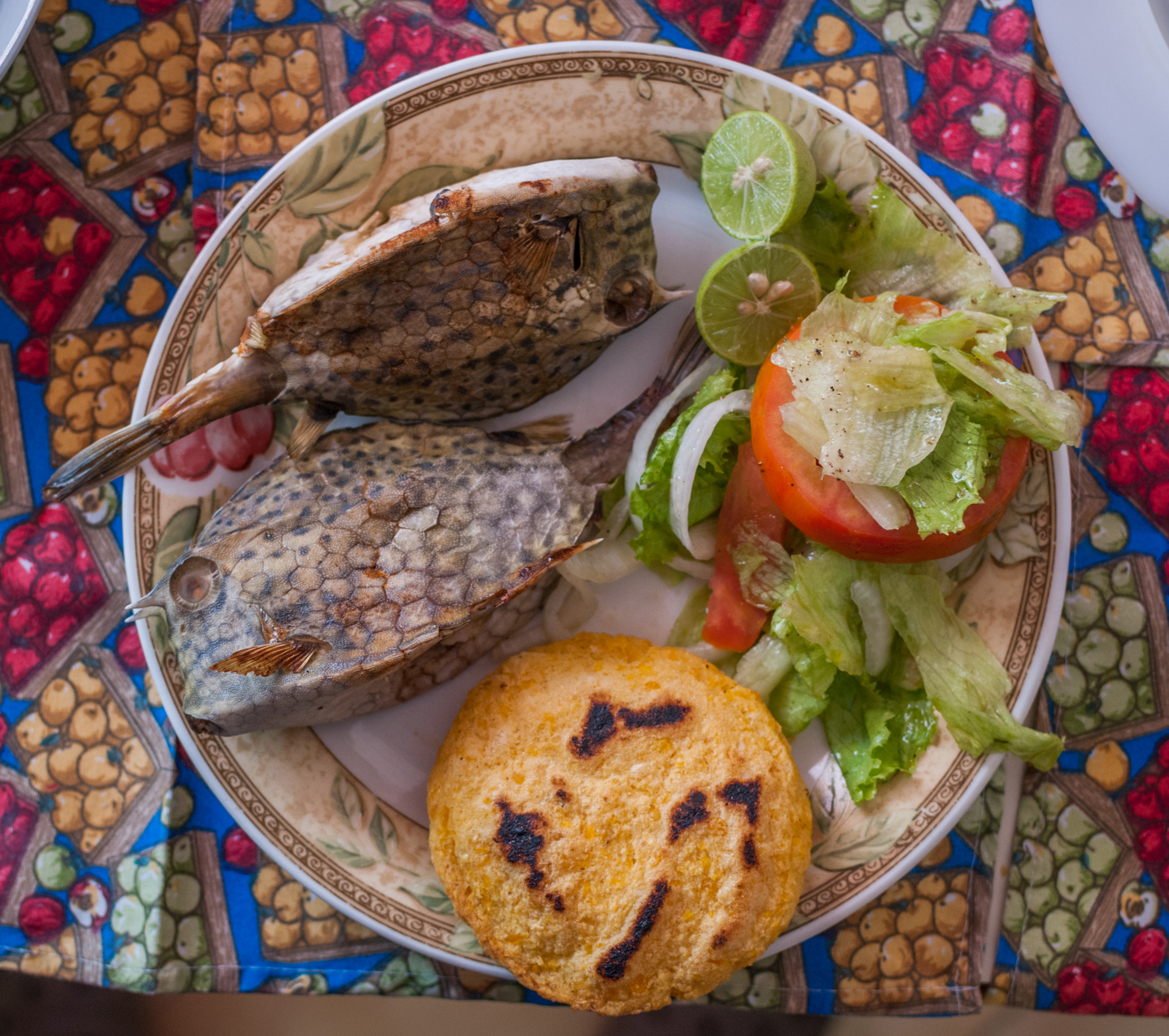 cuisine of Margarita island